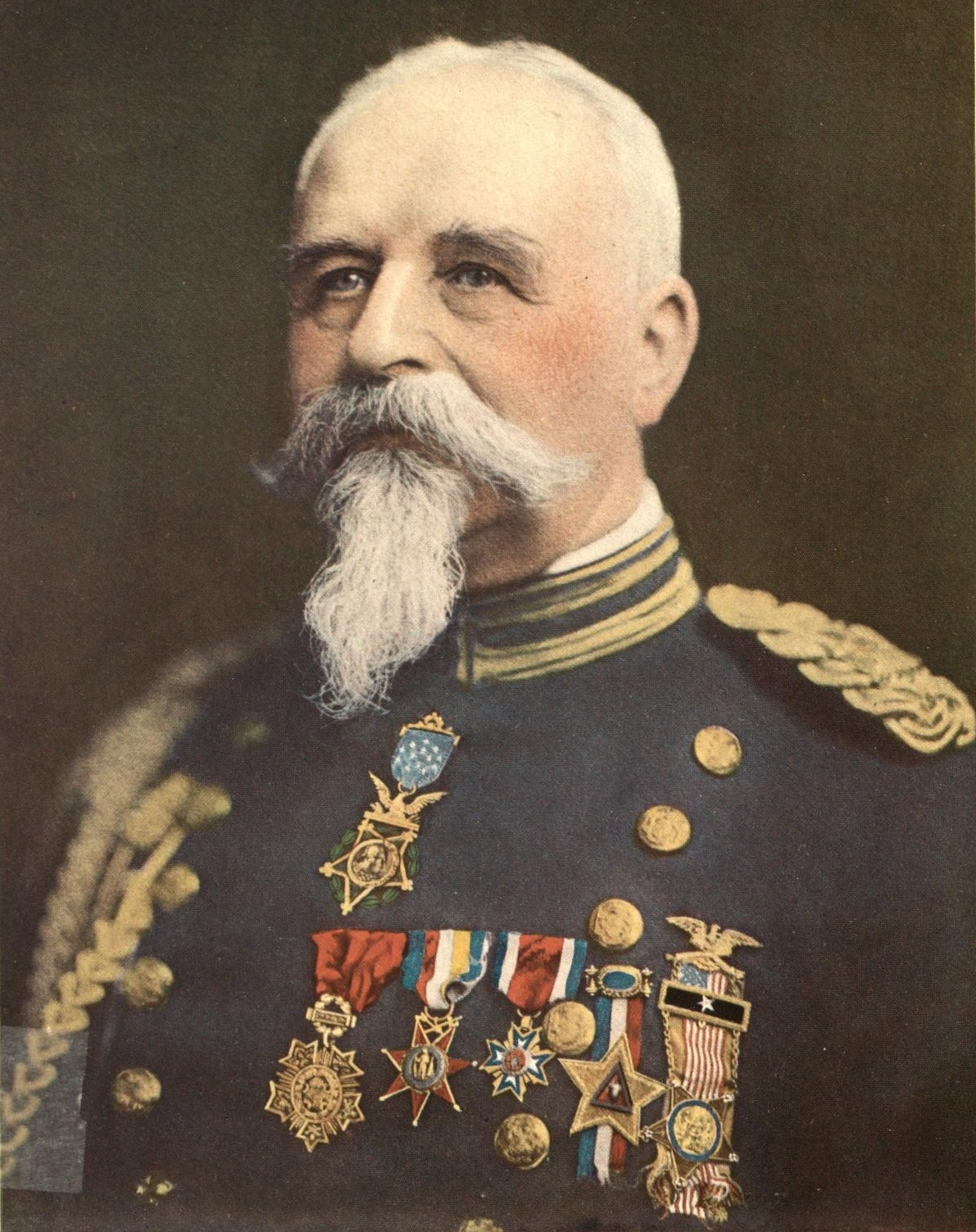 Frederick Phisterer, Civil War Medal of Honor recipient